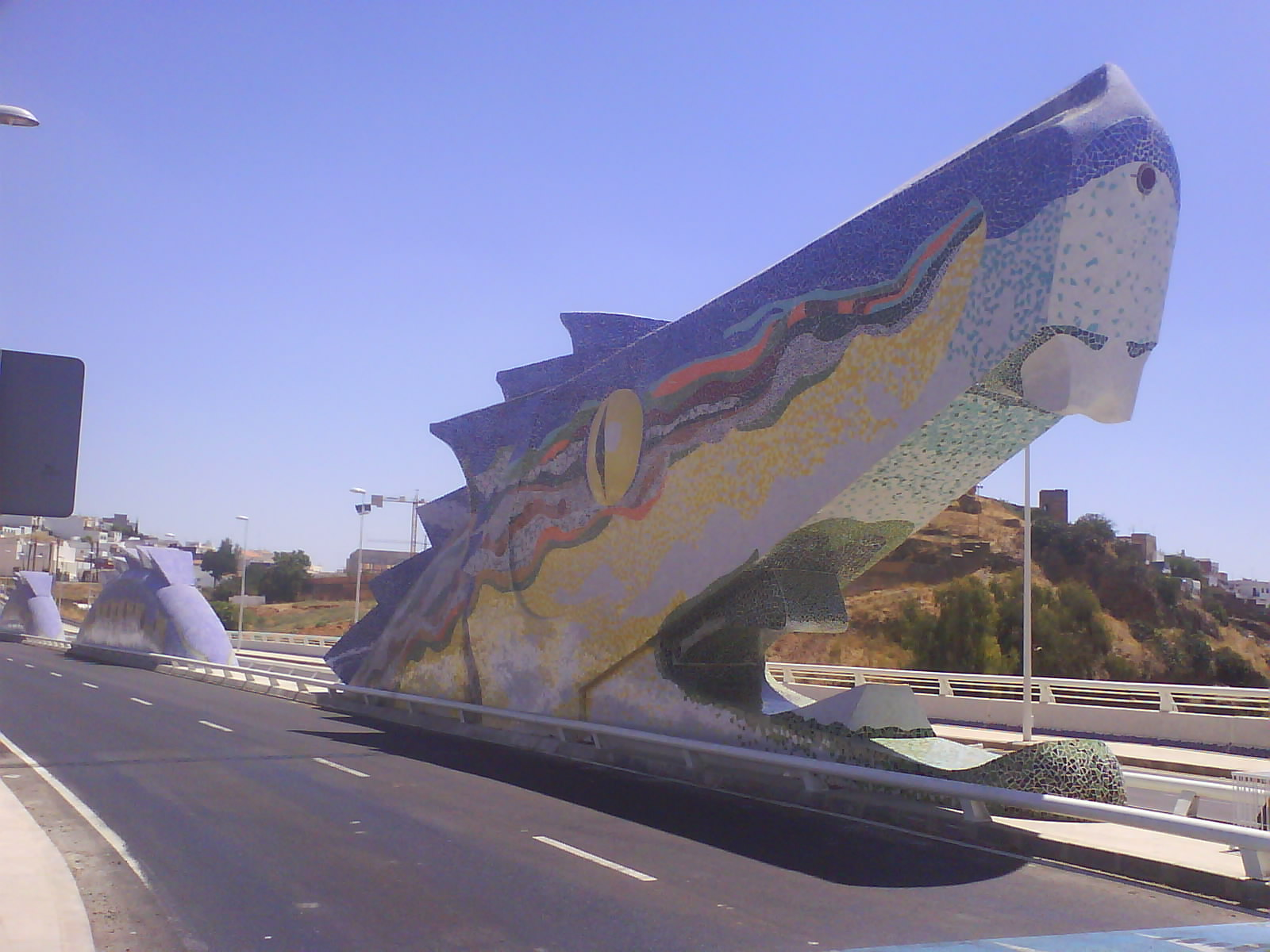 Bridge of Dragon in Alcalá de Guadaíra.